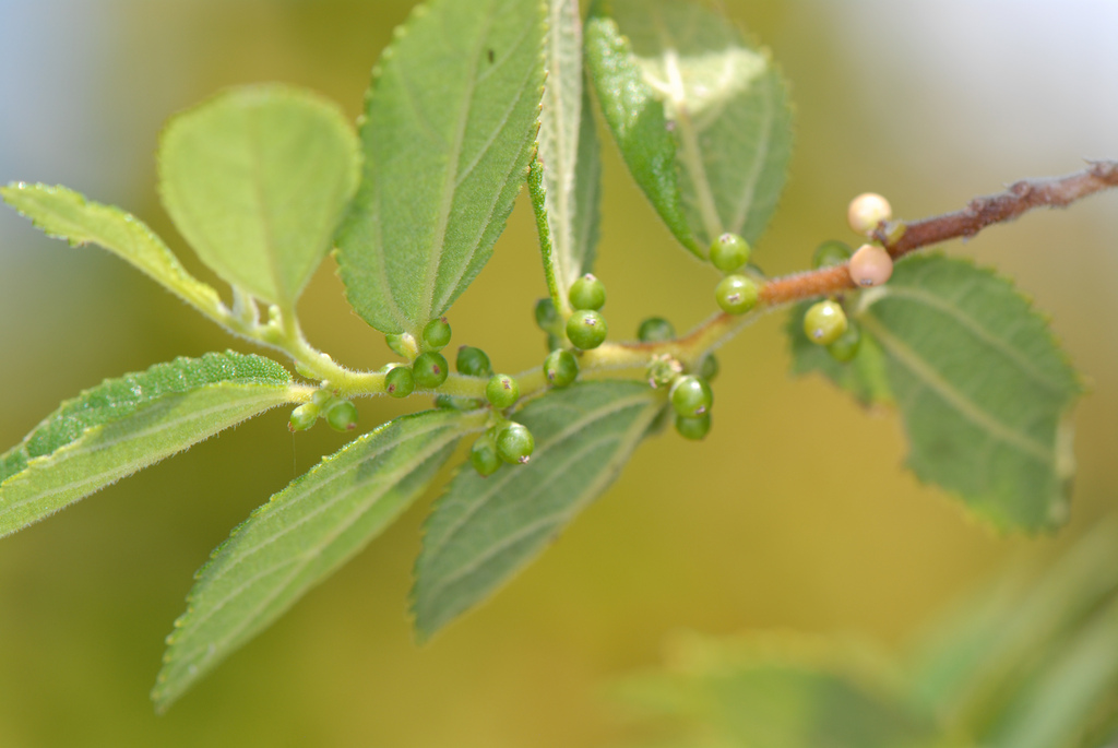 BDA: 32° 20' N x 64°42' W Walsingham Nature Reserve Hamilton Parish, Bermuda 31 July 2009 Sam Fraser-Smith